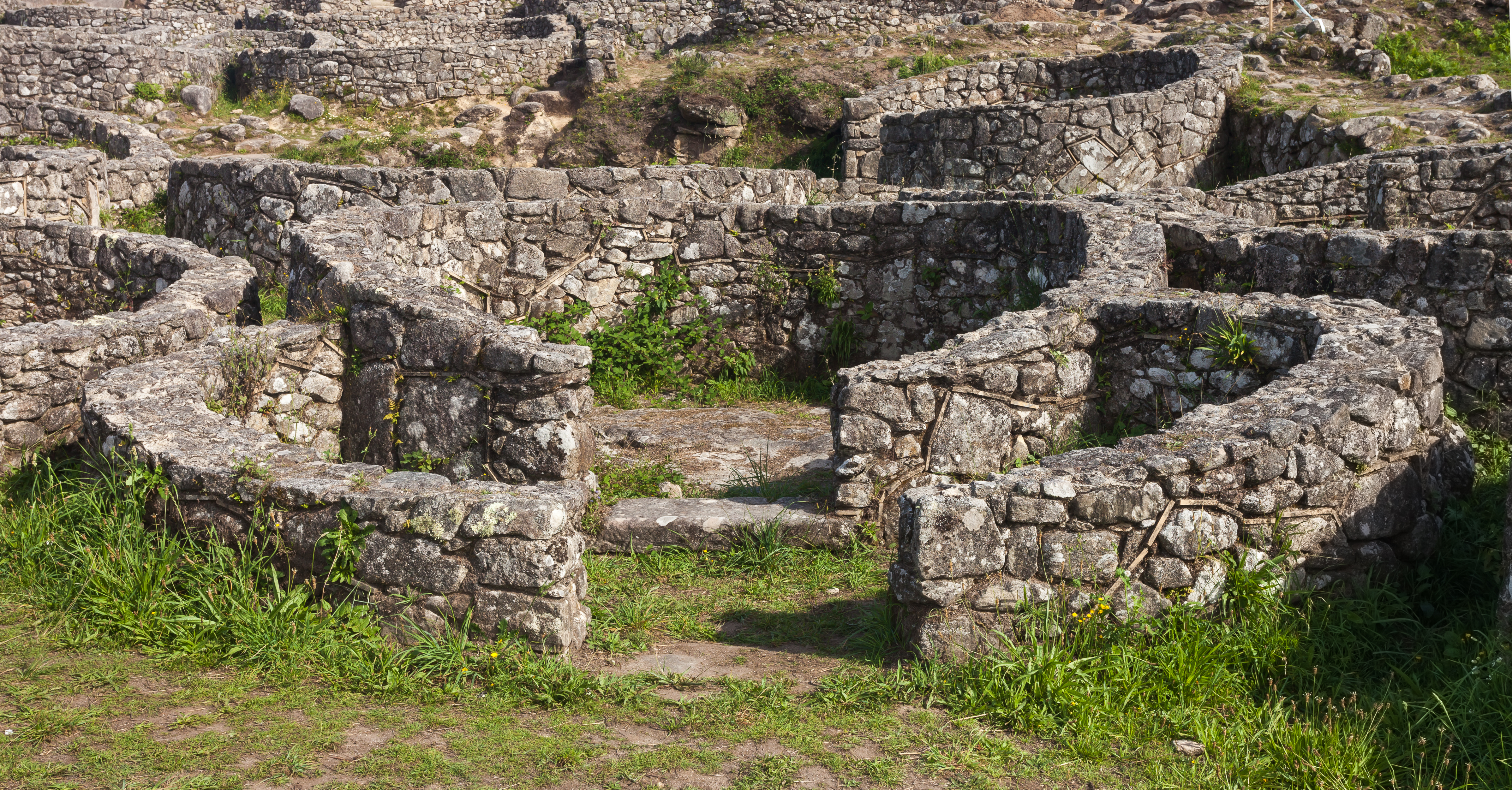 Hill fort of Santa Trega, A Guarda, Galicia (Spain).